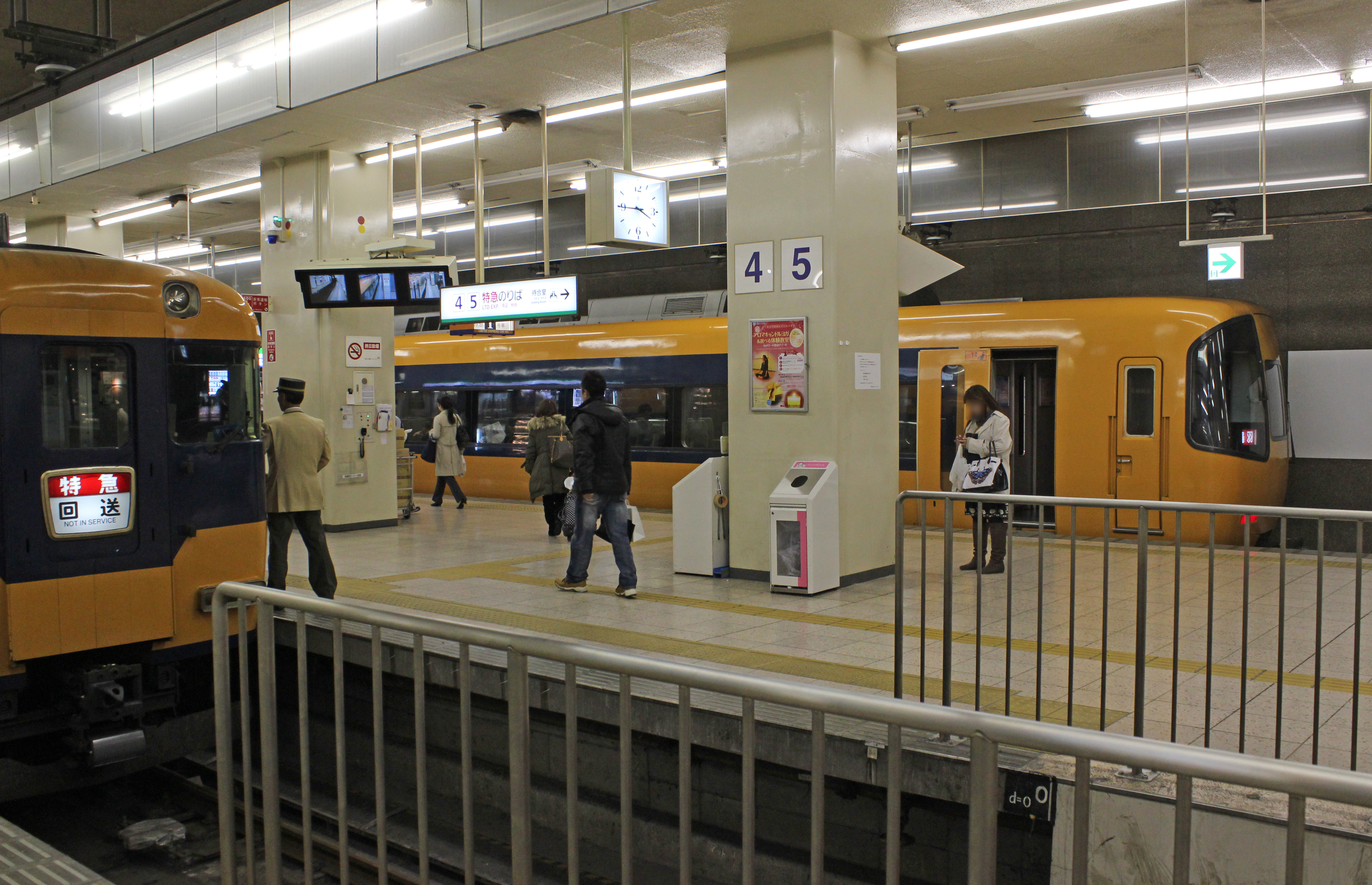 Kintetsu Nagoya Station platforms for limited express trains